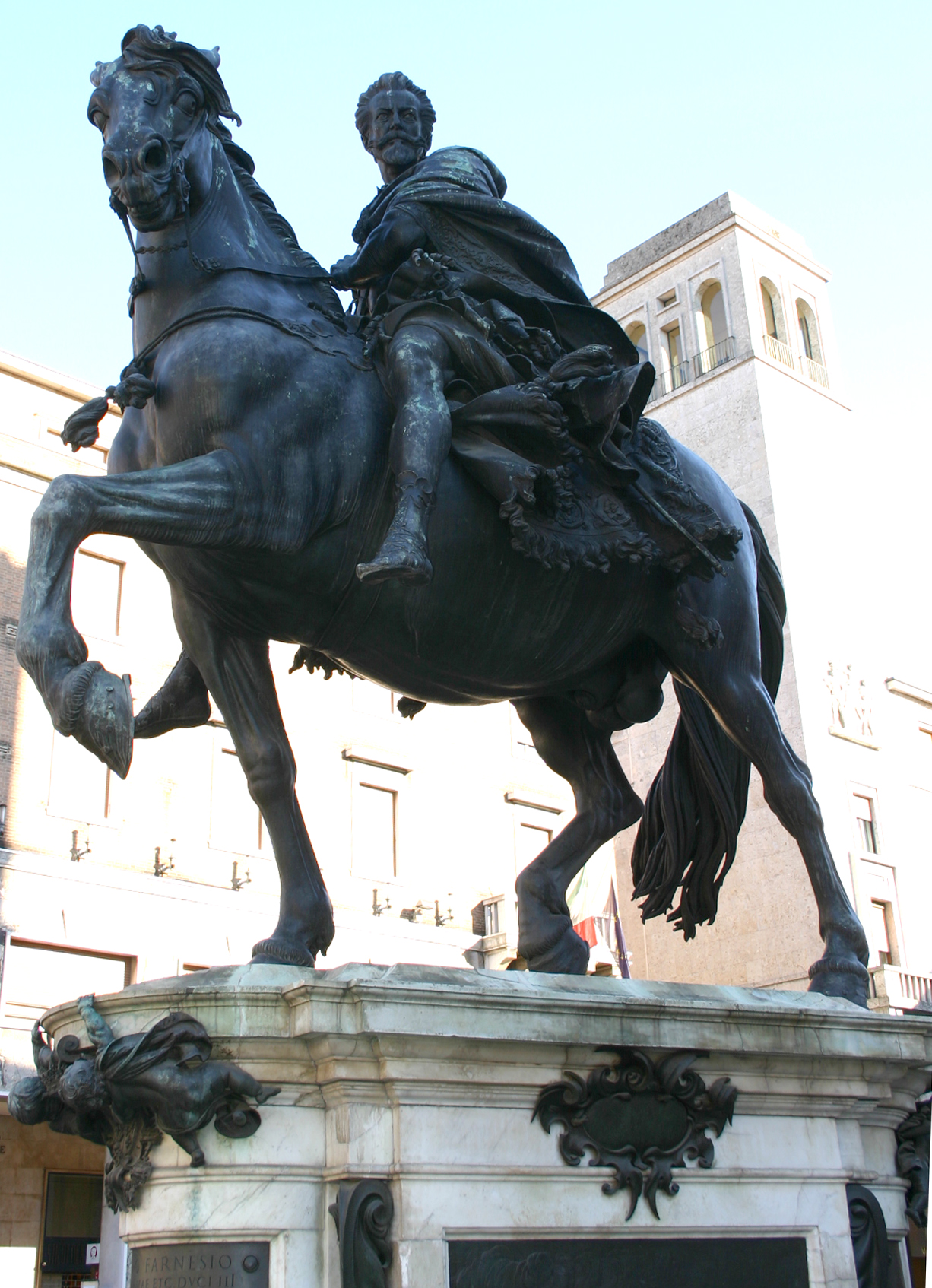 Francesco Mochi (1580-1654), Monument (1620/1625) to Alessandro Farnese, duke of Parma and Piacenza as well as general of the Holy Roman Empire. The monument stands in the main square, "Piazza dei cavalli", in Piacenza, Italy. Picture by Giovanni Dall'Orto, July 14 2007.